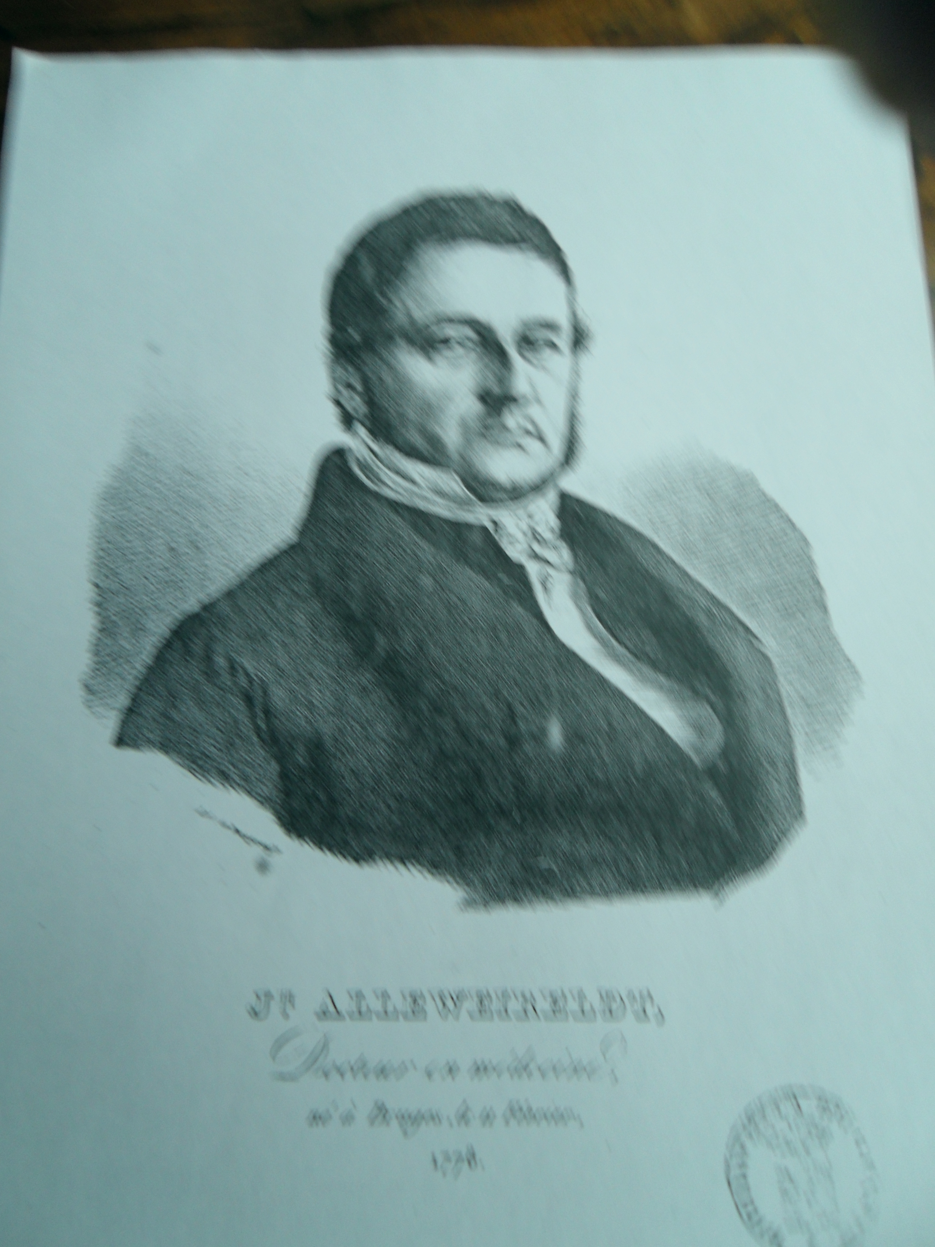 This is a photo of the 19th C. physician and writer Joseph Alleweireldt